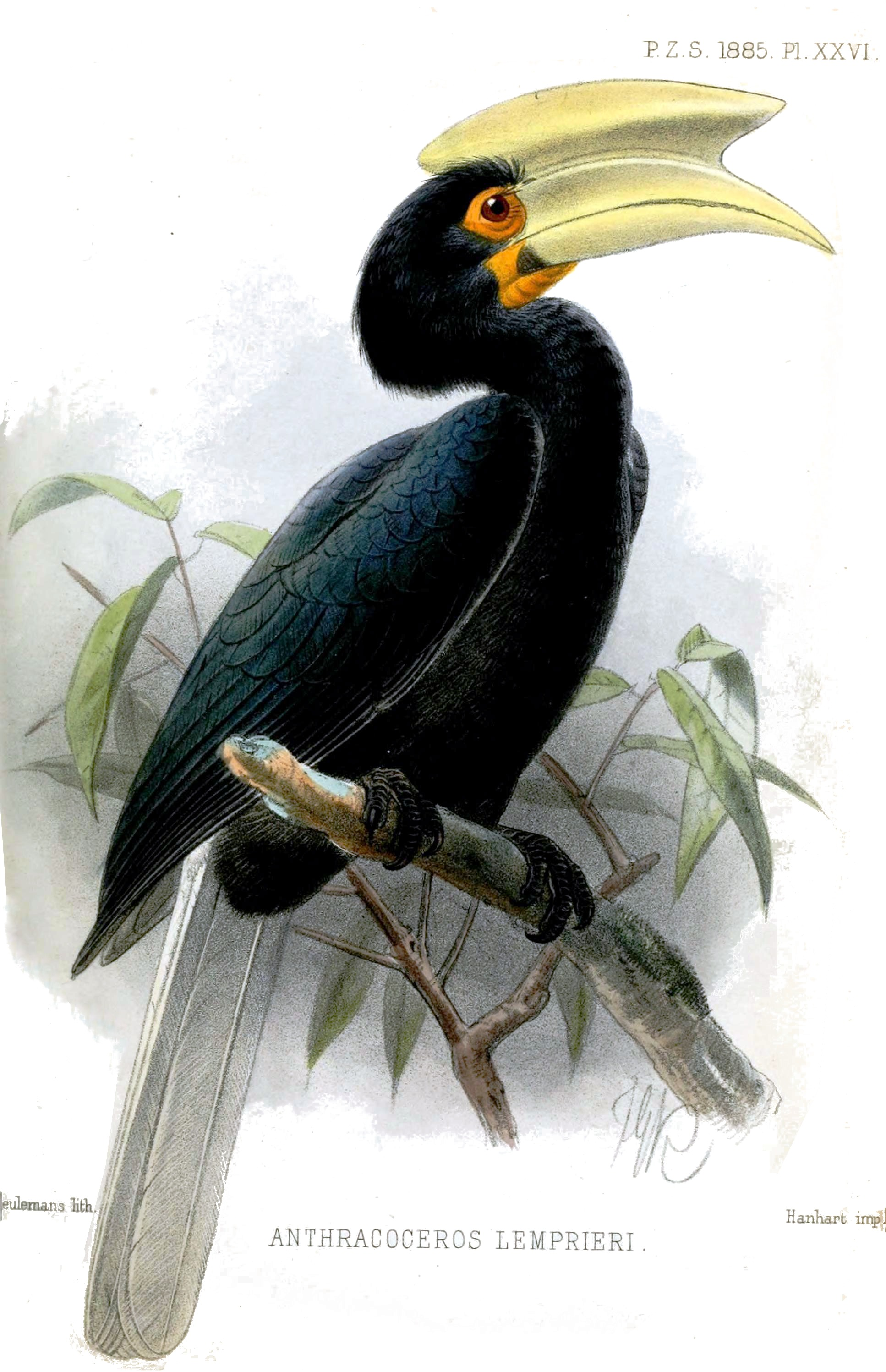 Palawan Hornbill, adult male